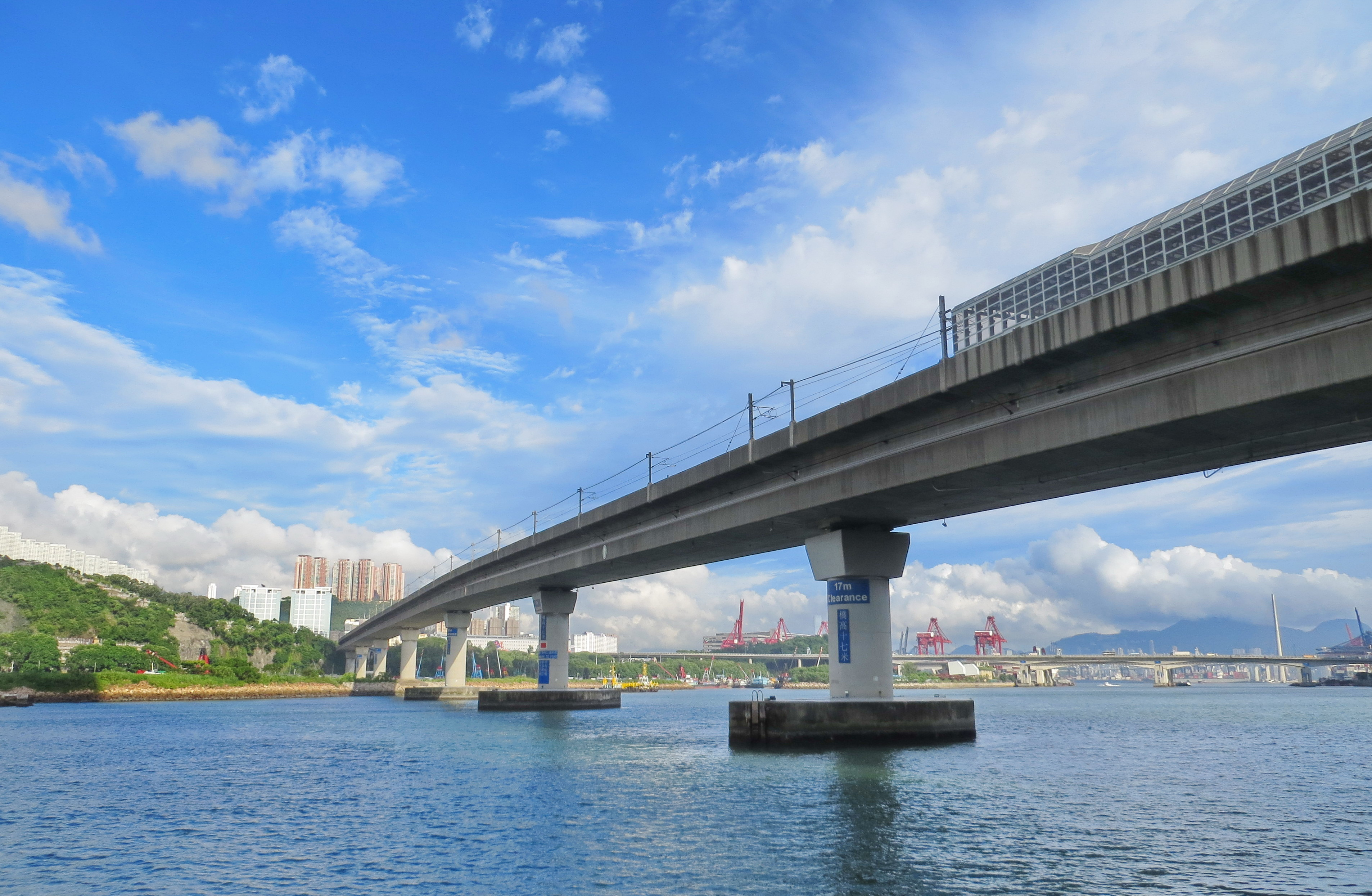 The rail bridge "Tsing Lai Bridge" for MTR and Airport Express over Rambler Channel of Hong Kong.